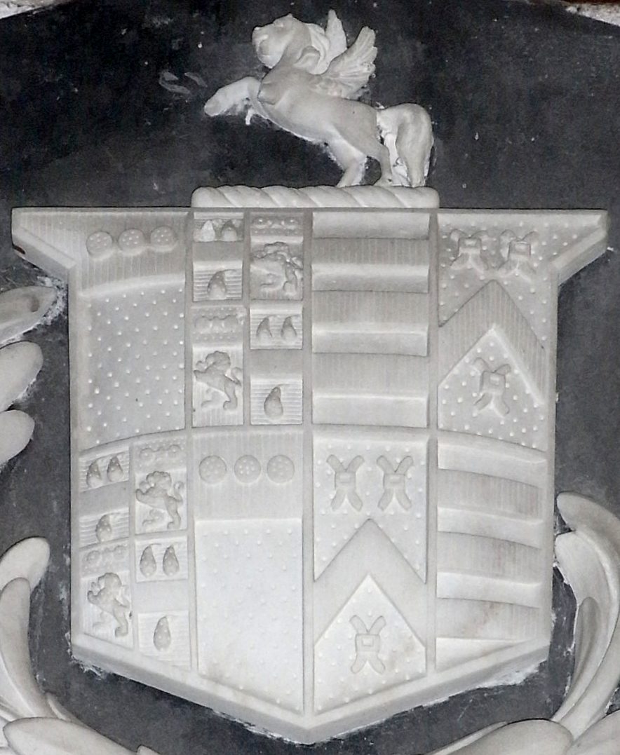 Hatched escutcheon showing arms of Rev. Thomas Hooper Morrison (1768-1824) of Yeo Vale, Alwington, Devon, at top of his mural monument in the Yeo Vale Chapel of Alwington Church. The arms are Morrison (quartering Orchard of Hartland Abbey) impaling the arms of his wife Anna Rolle Wollocombe (of 4 quarters): Baron: quarterly of 4: 1&4: Or, on a chief gules three chaplets of the first (Morrison); 2&3: quarterly of 4: 1&4: Azure, a fess argent between three pears pendant or (Orchard); 2&3: Gules, a lion rampant on a chief or a mullet between two roundels (unknown); impaling Femme: quarterly of 4: 1&4: Argent, three bars gules (Wollacombe); 2&3: Or, a chevron between three millrinds gules (unknown). Crest above: A winged Pegasus rampant (Morrison)